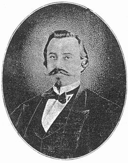 Francisco_Maceo_Osorio_original